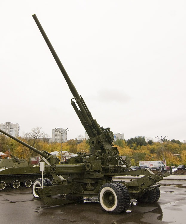 130-mm air defense gun KS-30. Motovilikha Plants museum in Perm Russia.